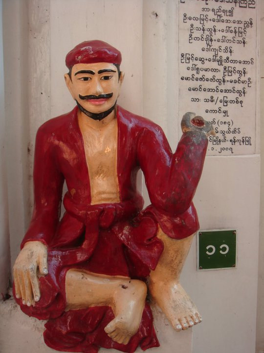 A Wait Zar(mystery man with power) statue found at Shwedagon Pagoda.မြန်မာဘာသာ: ရွေတိဂုံဘုရားတွင် တွေ့​ရ​သော ဝိဇ္ဇာ​ရုပ်​ထု တစ်​ခု